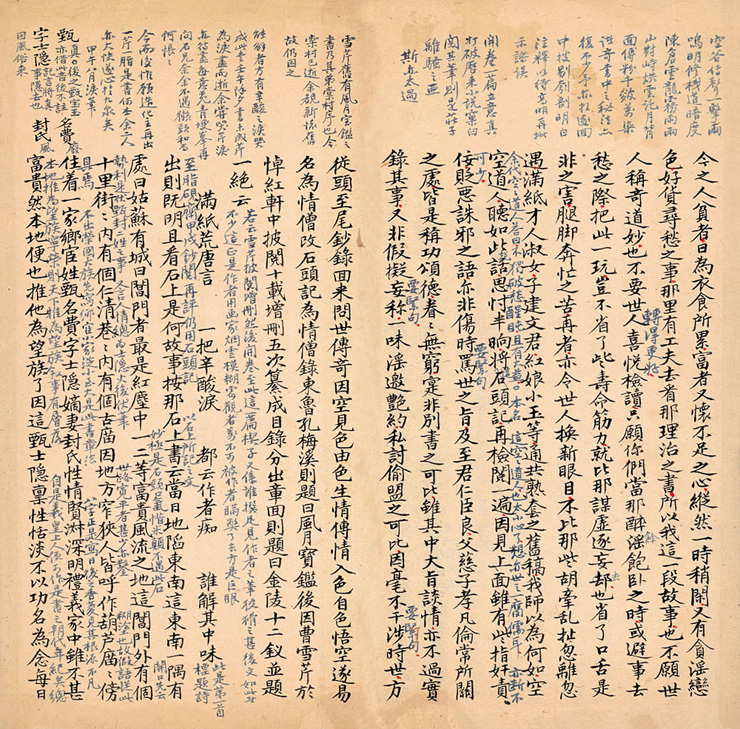 A page from the "Jimao manuscript" (己卯本) of the novel Dream of the Red Chamber (also known as The Story of the Stone), 1759. This is one of the earliest surviving manuscripts of the novel before its print publication.